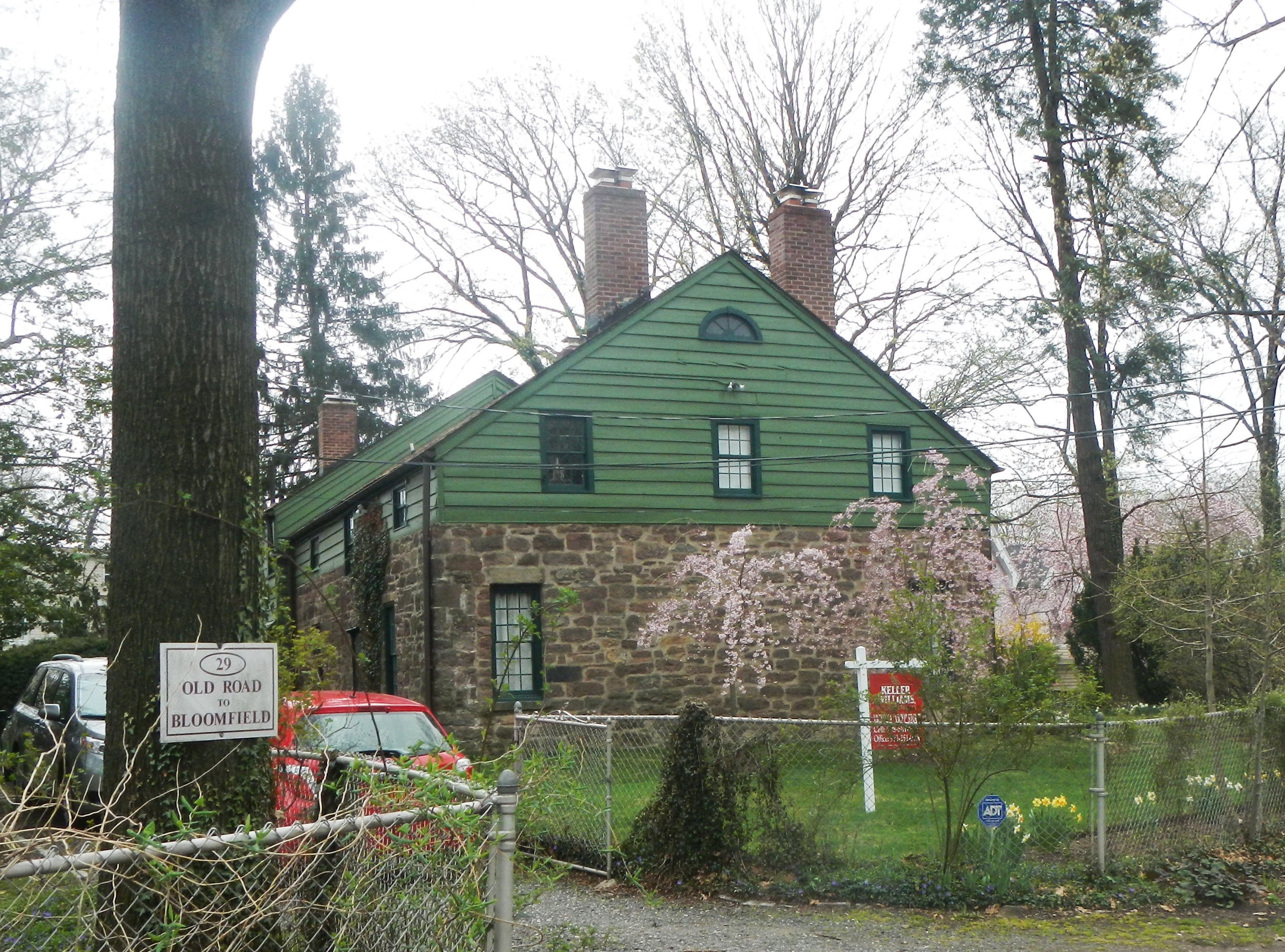 Looking east at house on a cloudy afternoon.